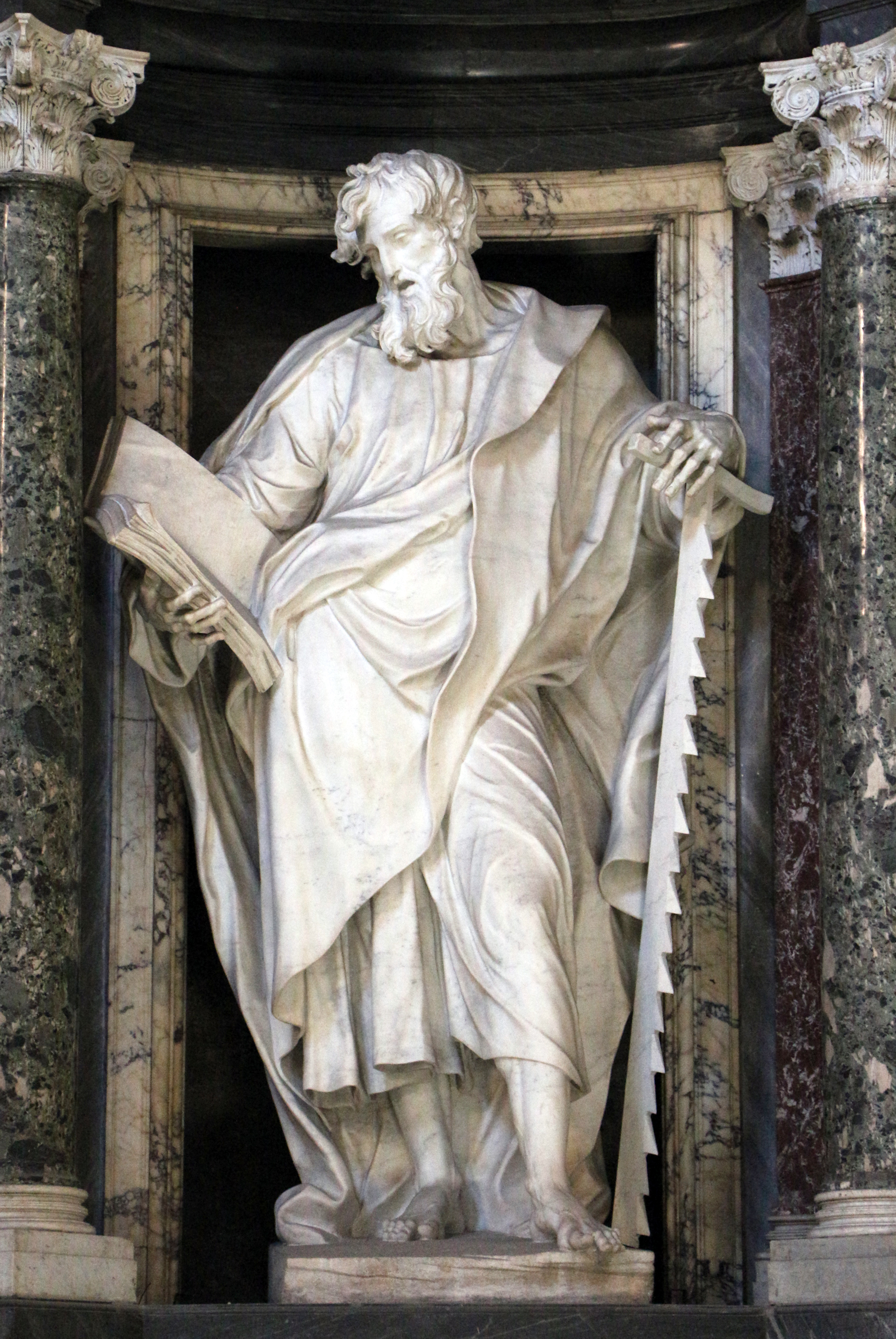 Twelve apostles in San Giovanni in Laterano